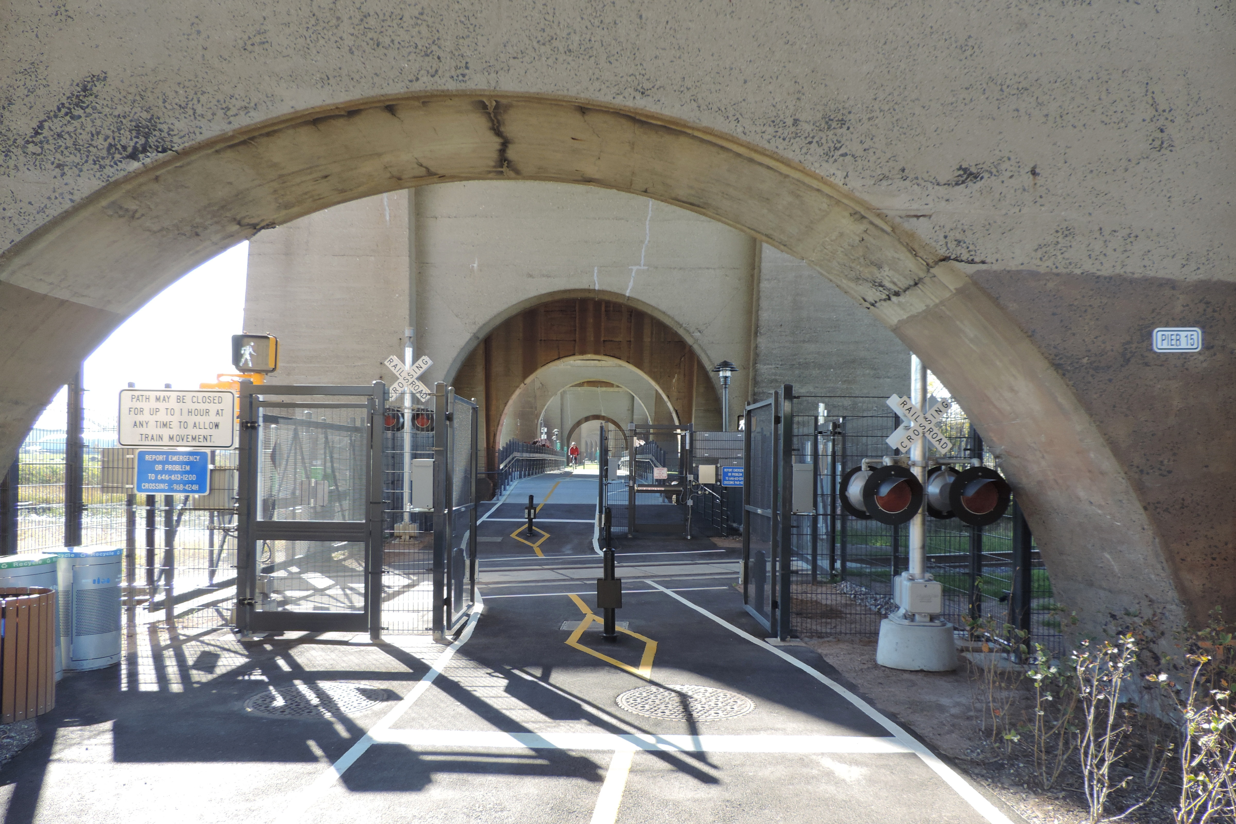 Looking southwest along greenway to Bronx Kill on a sunny midday.